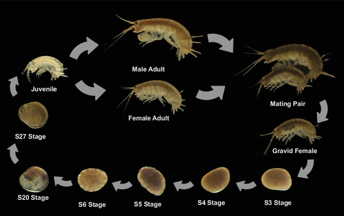 Life cycle of Parhyale hawaiensis that takes about two months at 26 °C. Parhyale is a direct developer and a sexually dimorphic species.